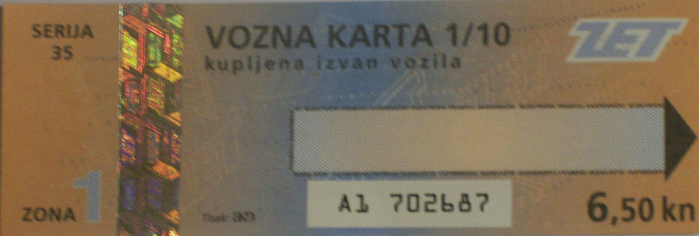 Tram ticket for Zagreb trams